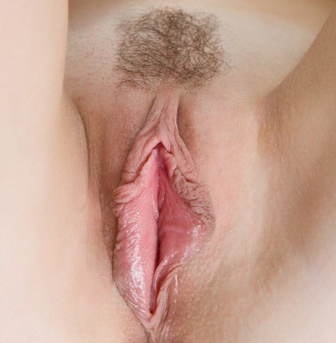 Labia minora